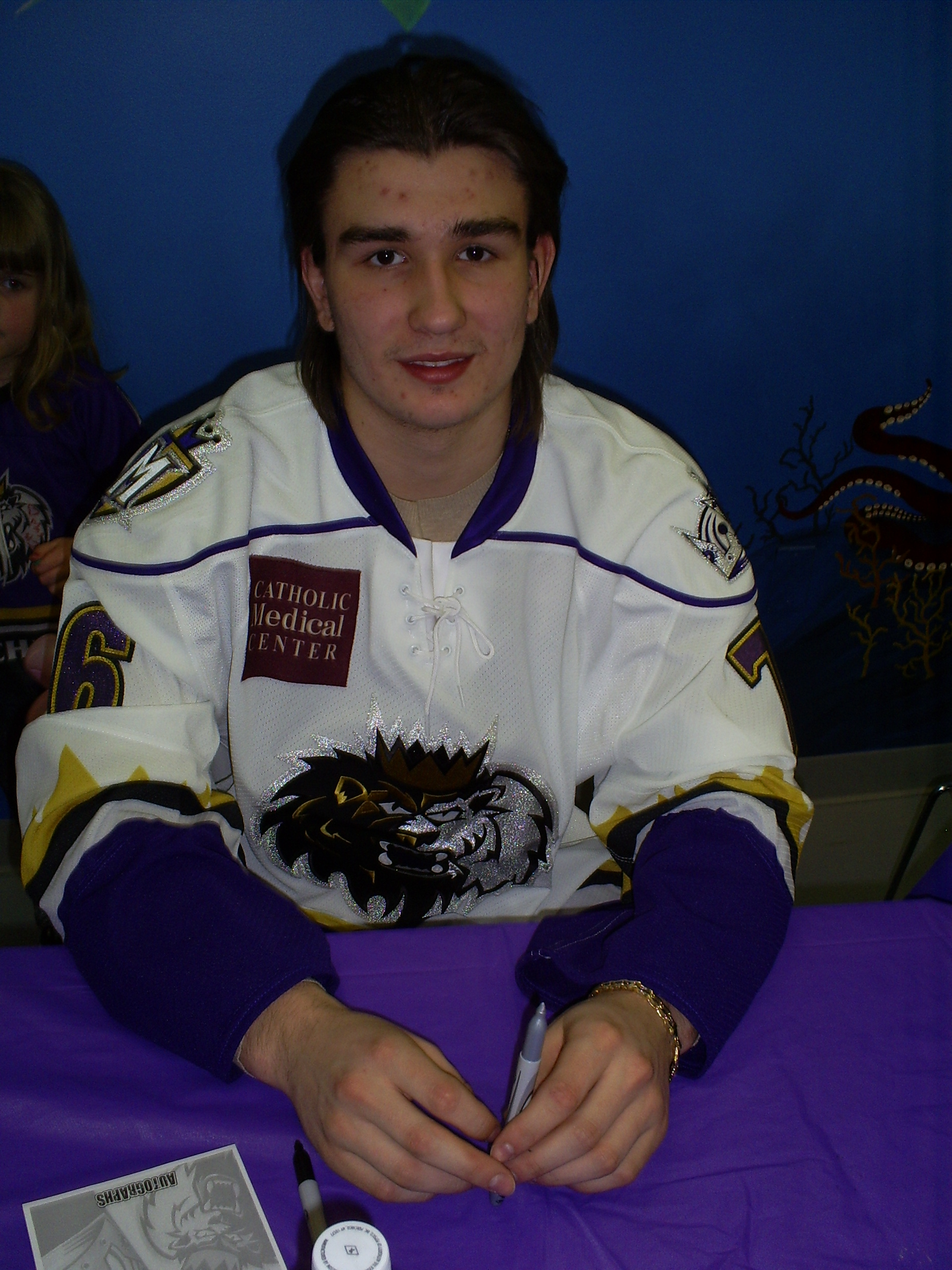 This is Viatcheslav in 2009 while playing with the Manchester Monarchs